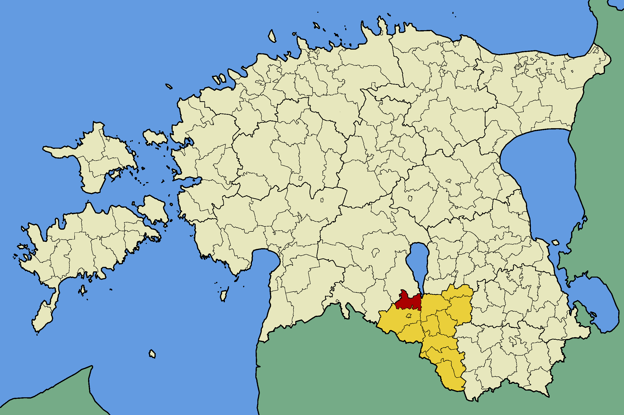 Map of Estonia with borders of municipalities (parishes). Valga county and Põdrala municipality emphasized.